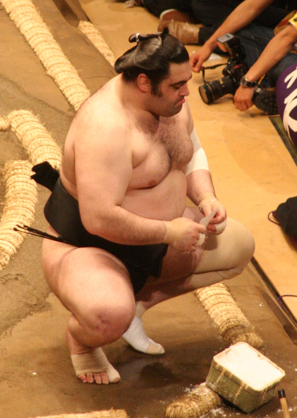 First day of 2009 May Sumo Tournament in Tokyo, Japan - Kokkai